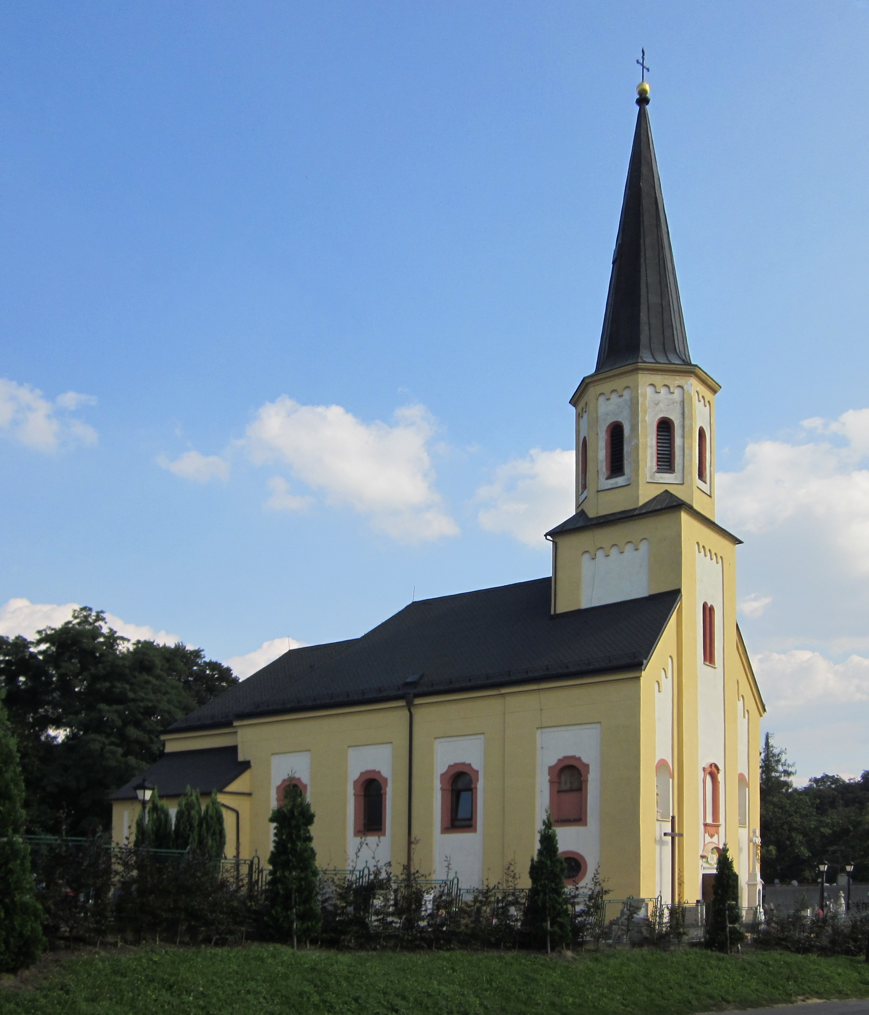 Church of the Assumption of Our Lady, Šilheřovice, Czechia